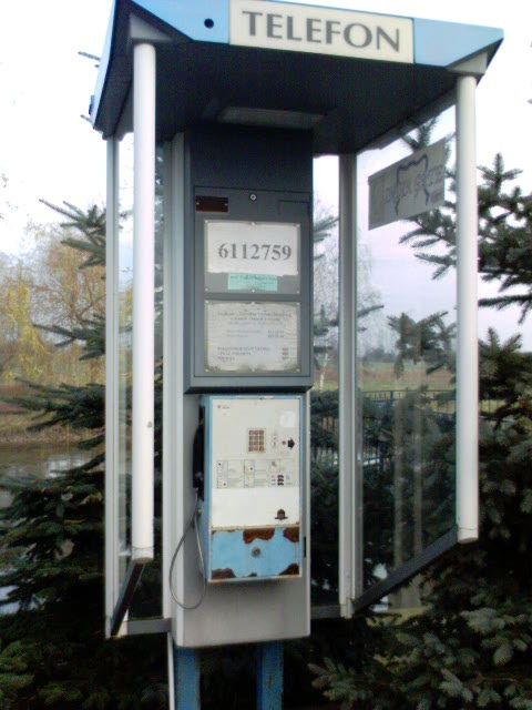 Pay phone of "Środkowo-Zachodnie Telefony Polskie S.A.", near Leszno, Poland - telephone type AWS-7.